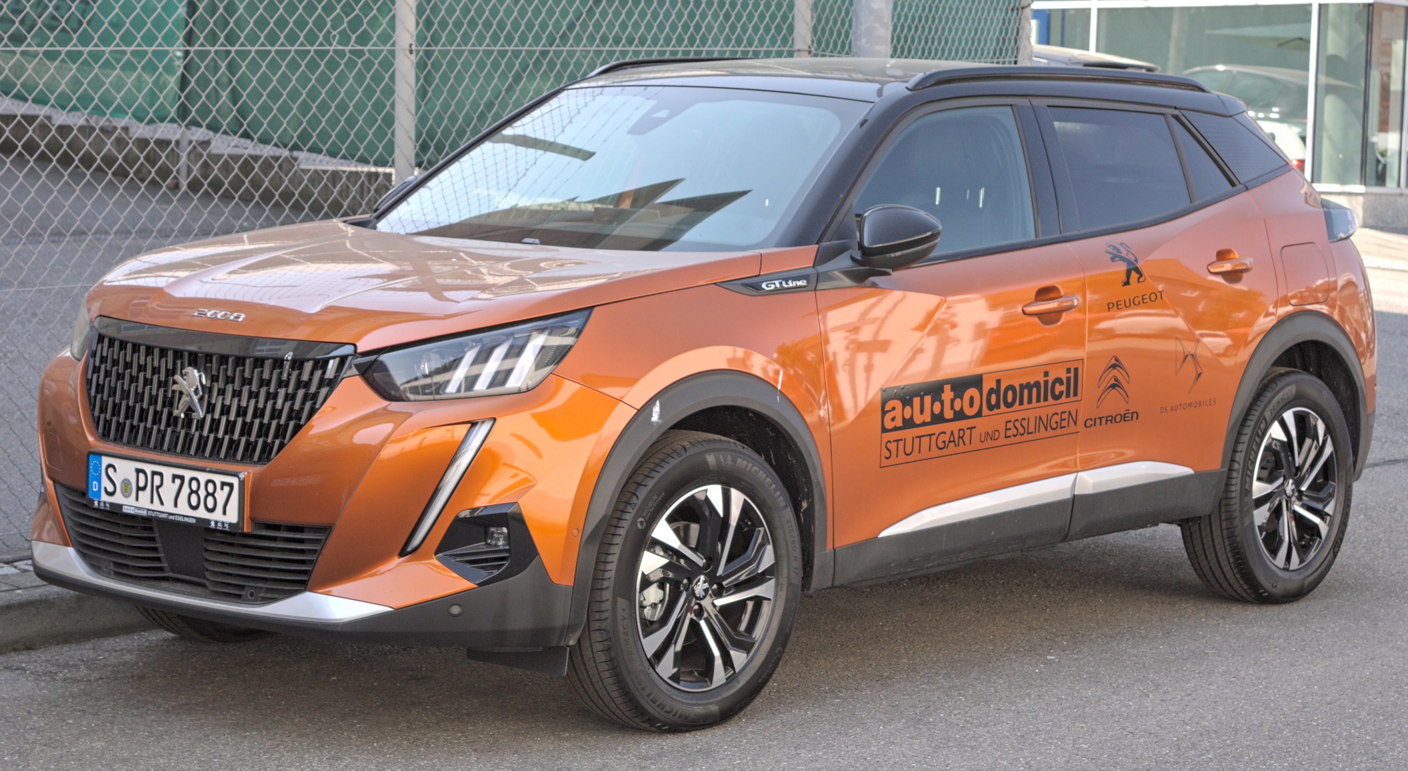 Peugeot_2008_B in Stuttgart